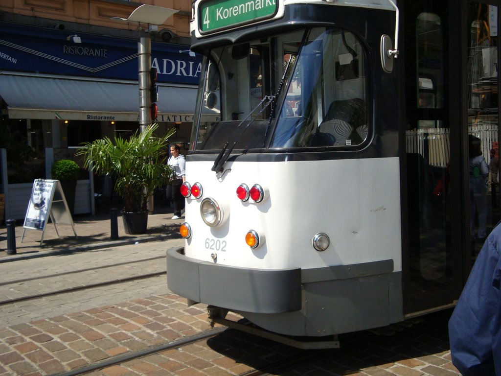 the cab of Euro PCC Tram in Ghent, Belgium